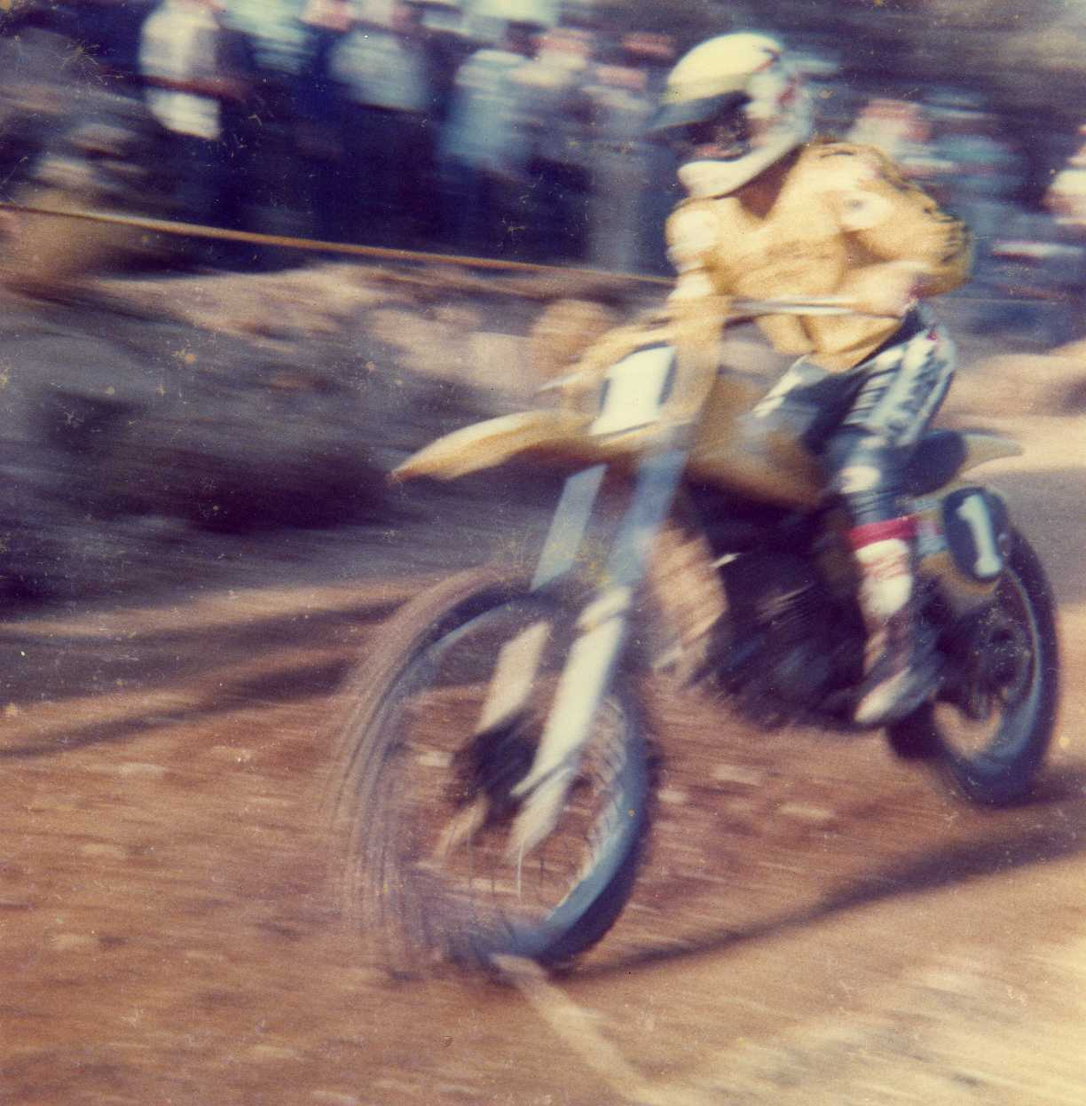 Gaston Rahier with his Suzuki at Circuit del Cluet, Montgai (Catalonia), during the 1978 spanish MX GP 125cc.